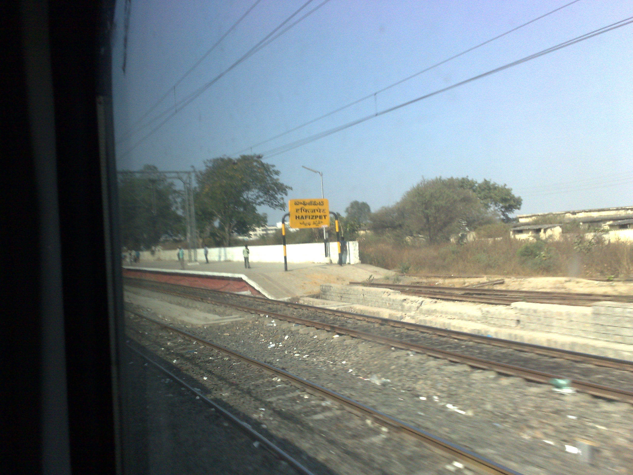 Hafizpet station